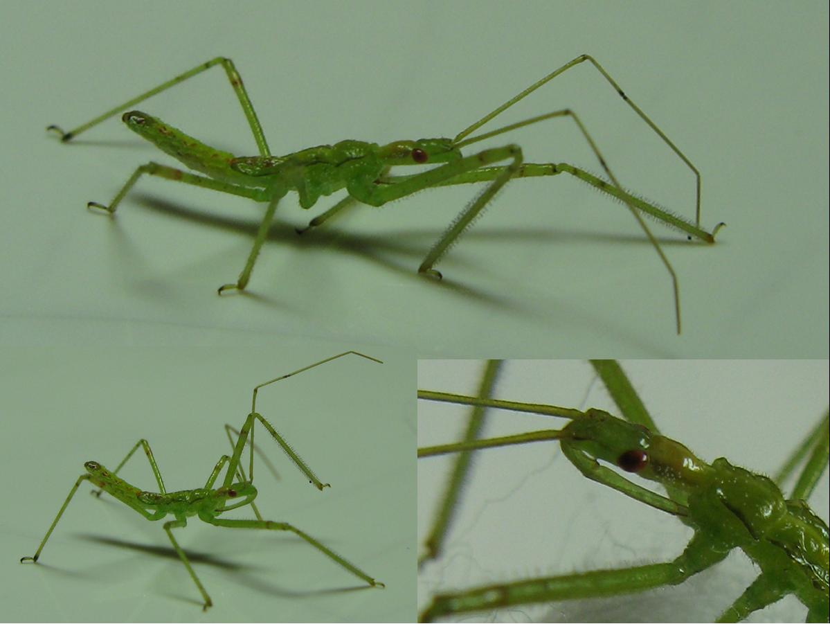 Picture of an Assasin bug nymph in the genus Zelus.